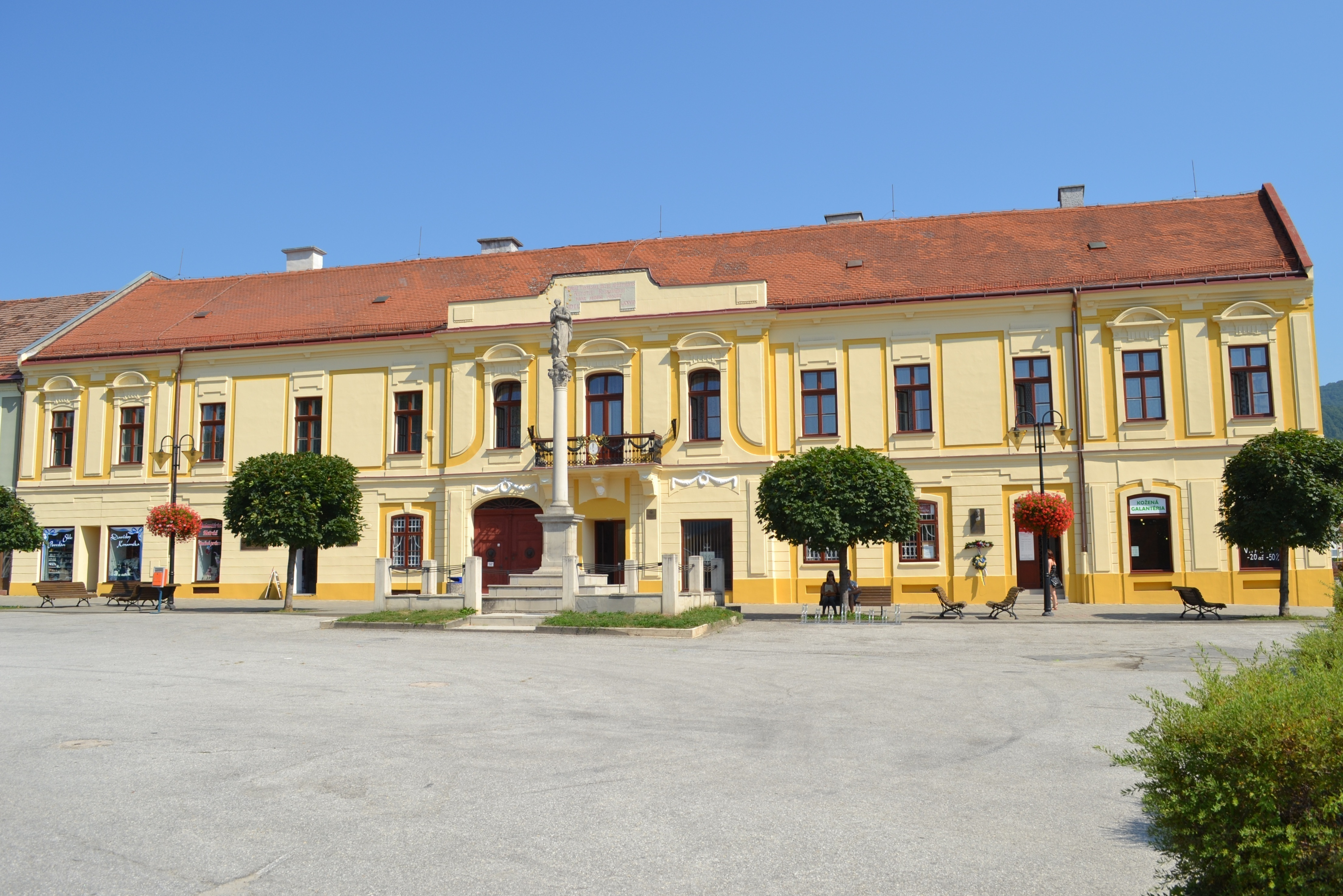 Bishop's Palace in RožňavaSlovenčina: Biskupský palác v Rožňave